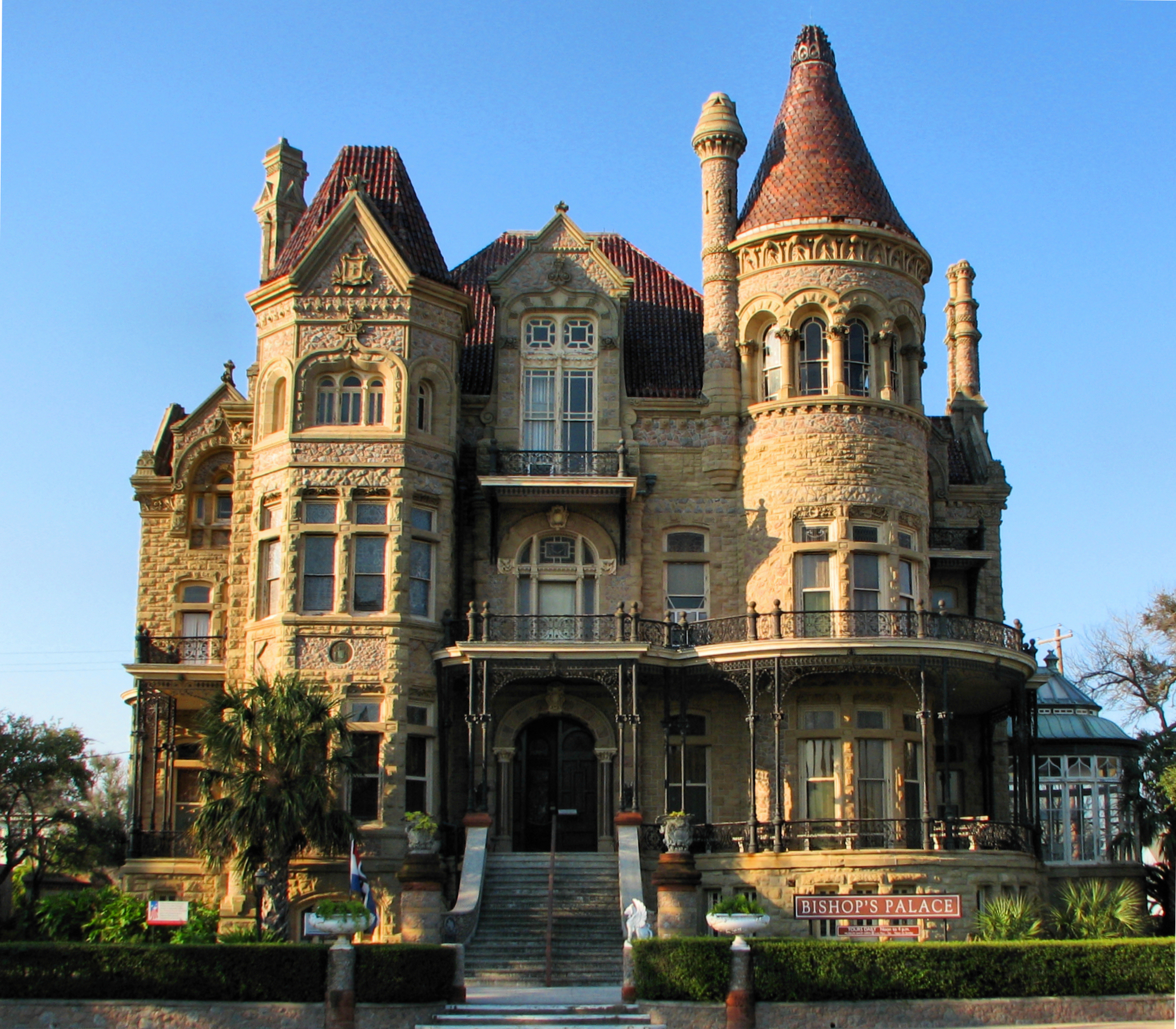 Bishop's Palace, Archdiocese of Galveston-Houston. Galveston Island, Texas, USA.